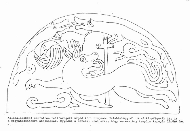 Sketch of the famous tympanon of Zalaháshágy village church. The drawing collection made by Szaniszlo Berczi. It can be used by art historians, all over the world. Please, mention the author. thanks.